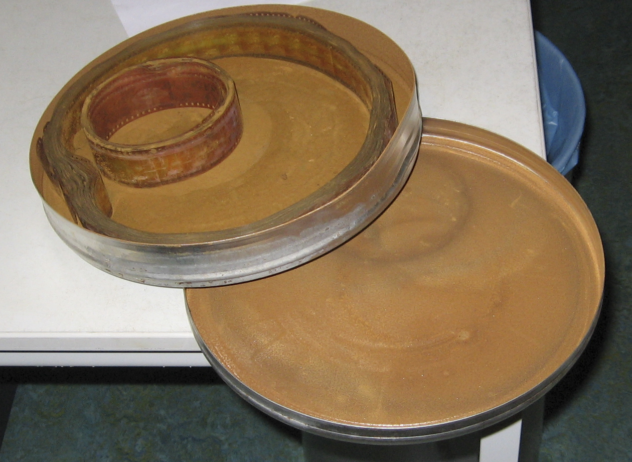 Film can with decayed nitrate film, EYE Film Institute Netherlands, Amsterdam.